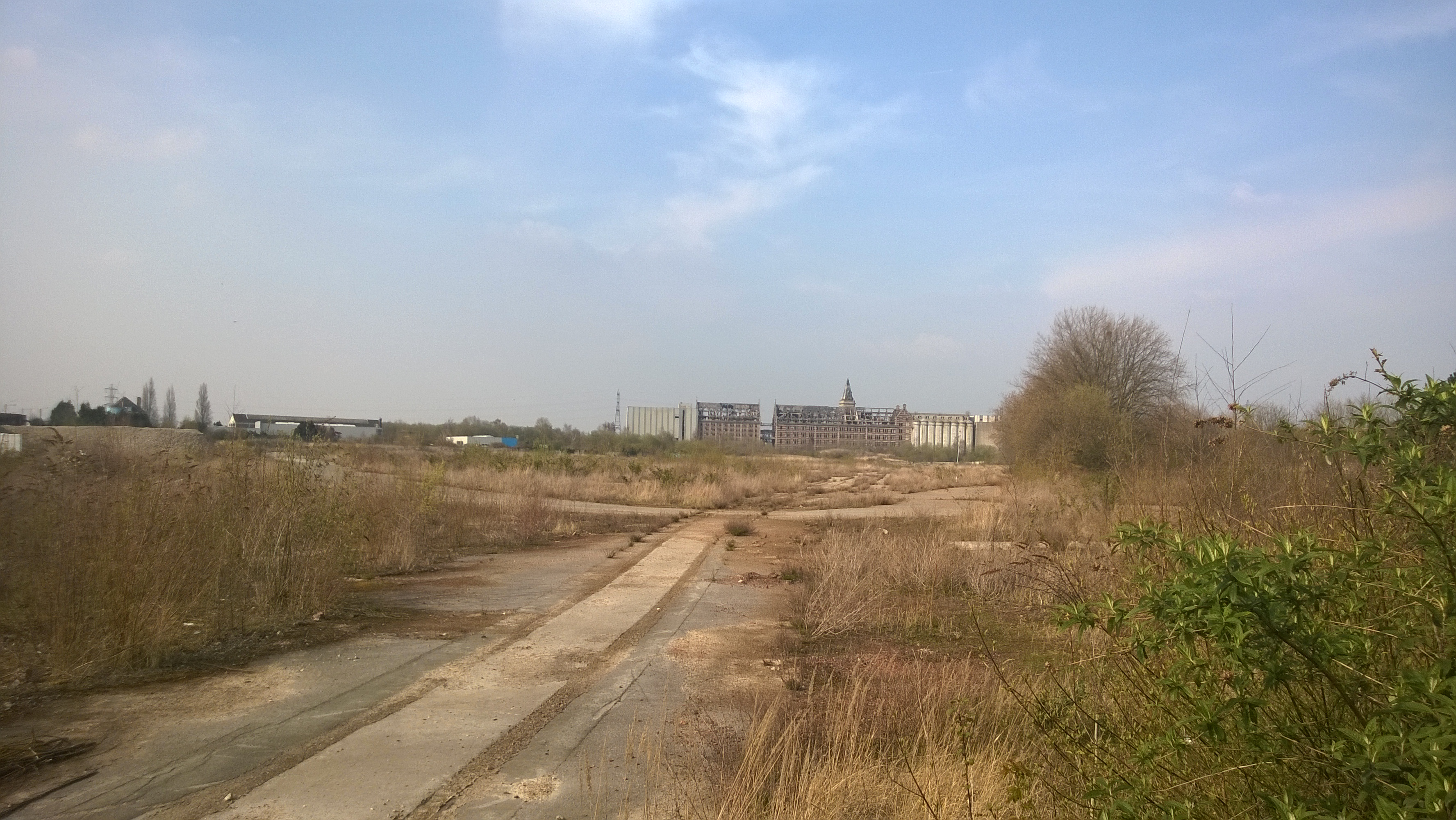 Urban wasteland at Marquette-Lez-Lille, France